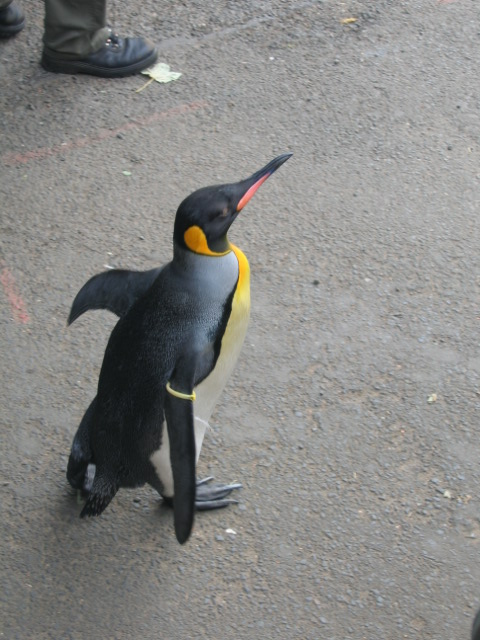 Nils Olav, a King Penguin living in Edinburgh Zoo, Scotland. He is the mascot and Colonel-in-Chief of the Norwegian King's Guard.